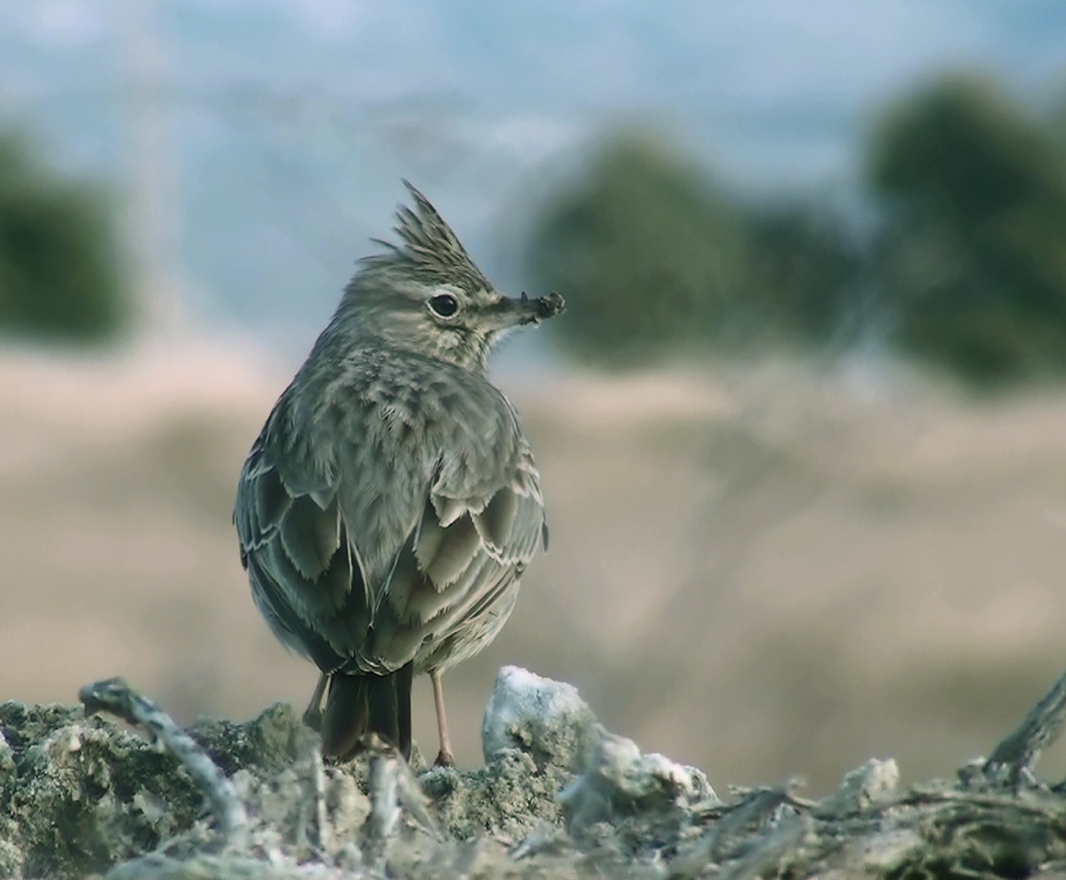 Thekla Lark Galerida theklae on a rock pile in the Montsec area of Lleida, northeast Spain.